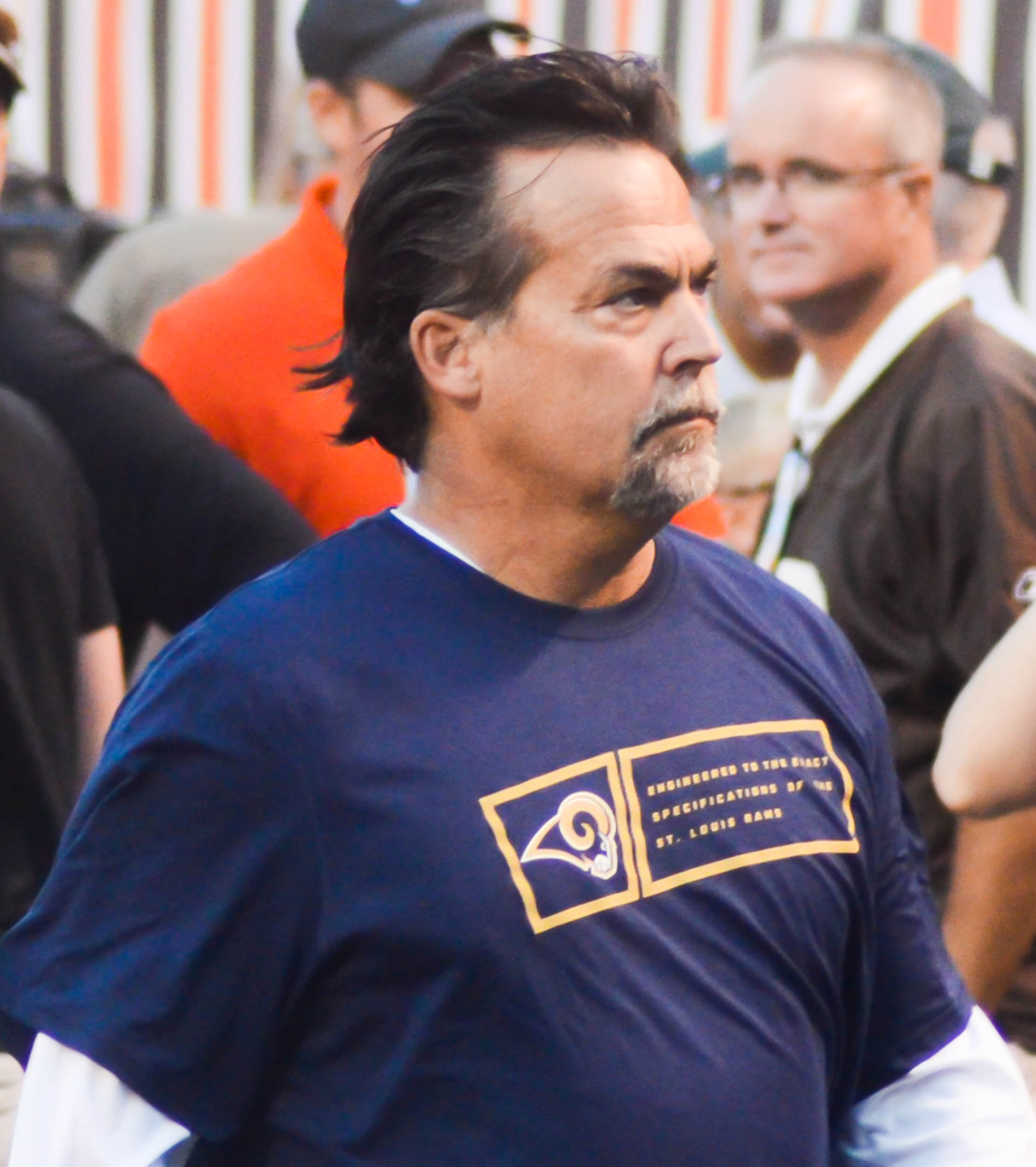 Jeff Fisher in 2014 preseason